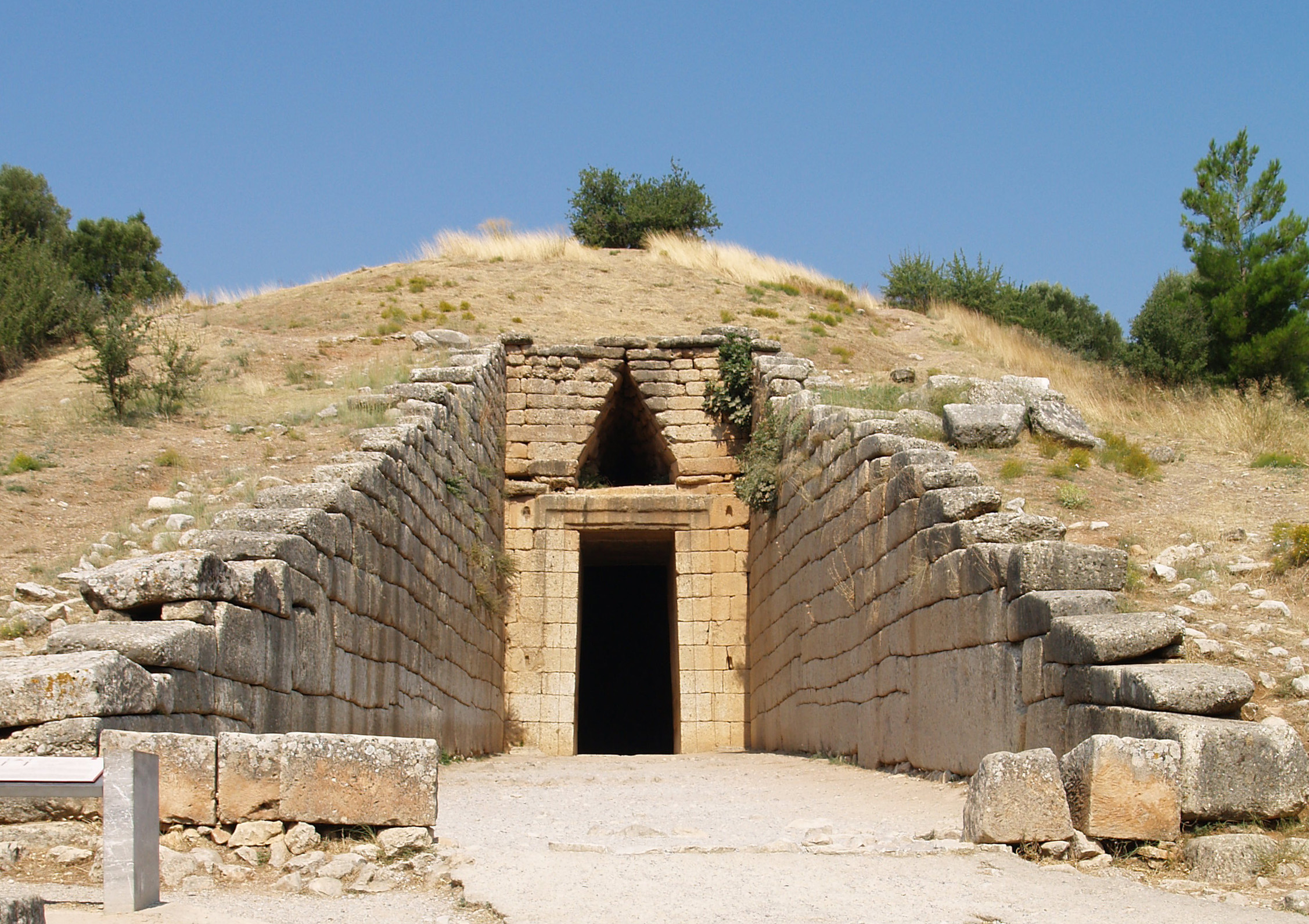 Corbelled arch, Entrance to the Treasury of Atreus, Mykene, Greece.